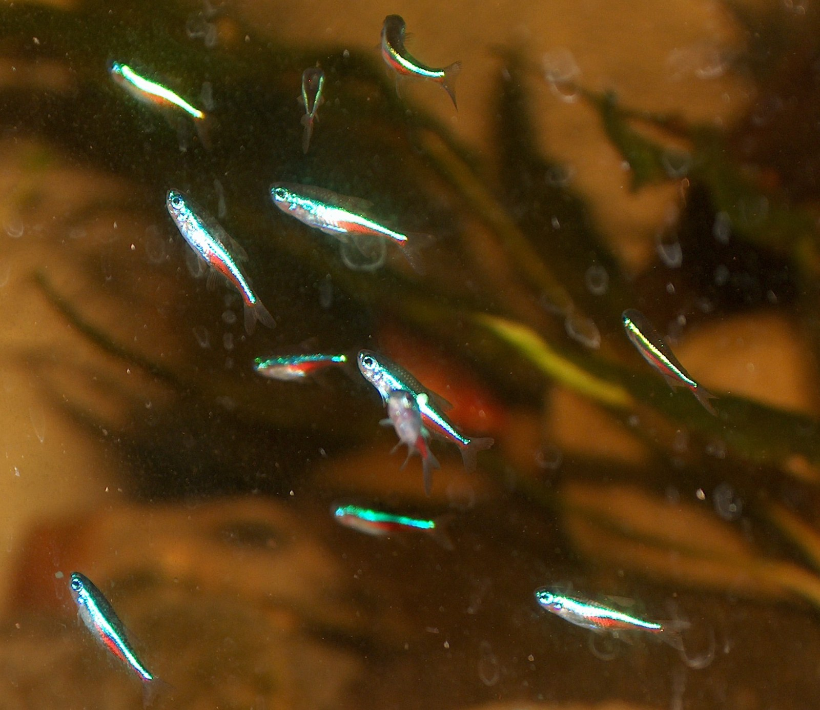 A school of Green Neon Tetra, Paracheirodon simulans